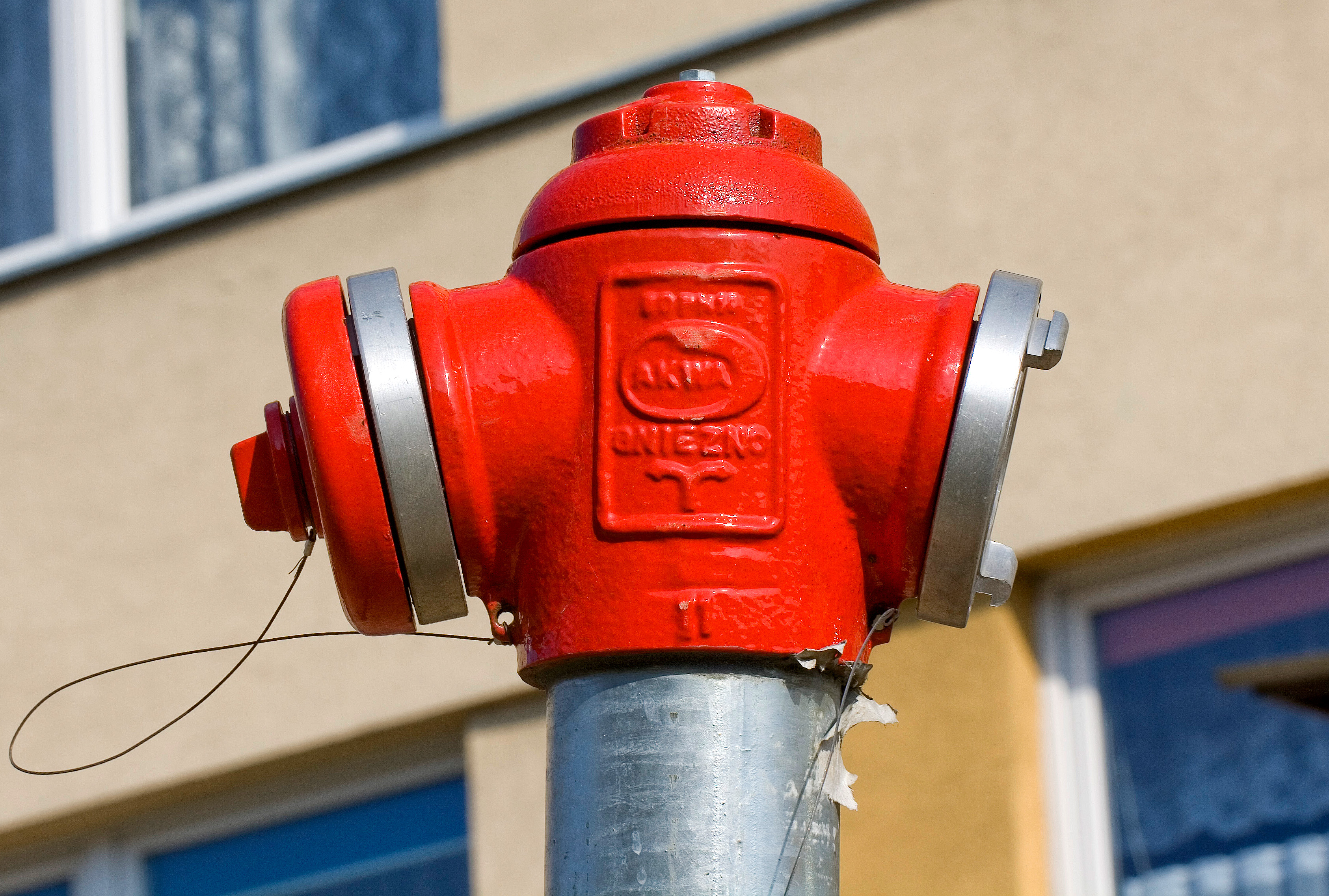 Fire hydrant, Gniezno, Poland